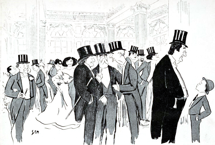 Published in "L'illustration". Image Title: "Au foyer du Théatre Réjane pendant un entr'acte de la répétition générale, par Sem. M. Gunsbourg. M. Arthur Meyer. M. Pierre Wolff. M. et Mme. Catulle Mendès. Mlle. Polaire. M. Victorien Sardou. M. Ludovic Halévy. Marquis de Massa. M. Feydeau. M. Capus. M. de Croisset. M. Alfred Edwards. M. Jacques Porel."